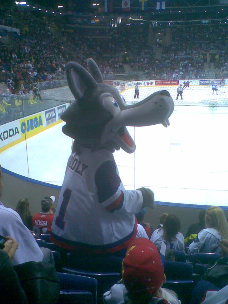 Mascot Goooly with fans (2011 IIHF World Championship: Russia vs. Slovenia 6-4)